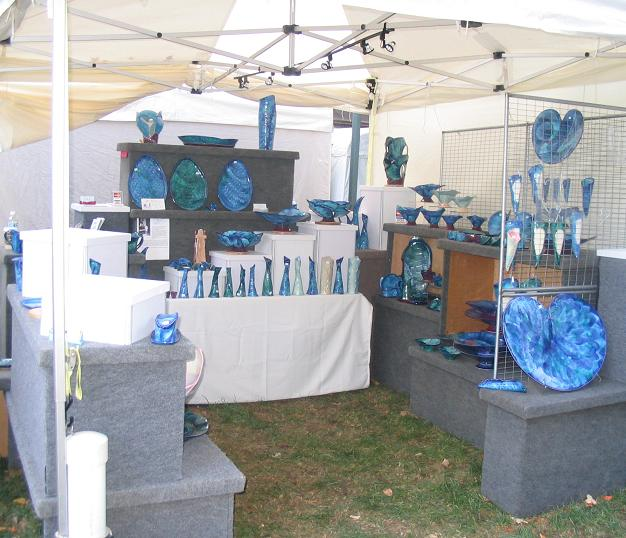 St. James art fair, booth